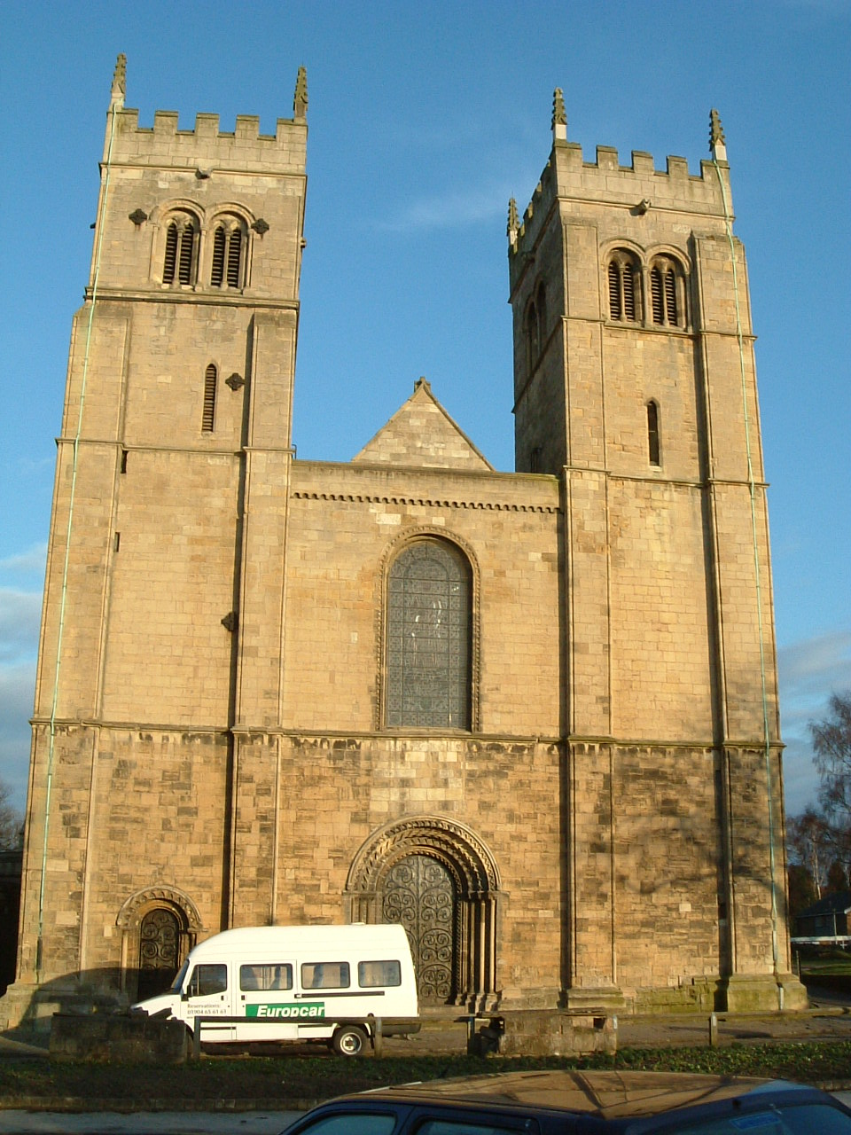 Worksop Priory of St Mary and St Cuthbert Taken by James Sanderson, February 2006, released to the public domain.